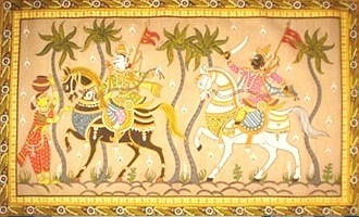 Kanchi Jagannath on wall hanging Pattachitra